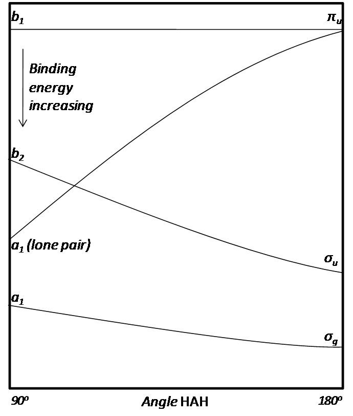 intro walsh